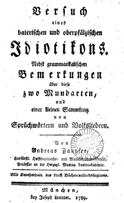 The Bavarian dictionary from Andreas Zaupfer, 1789. Original title: Verſuch eines baieriſchen und oberpfälziſchen Idiotikons (Attempt of a bavarian and upper palatinian dictionary). Scanned titel page from the Oxford University library.